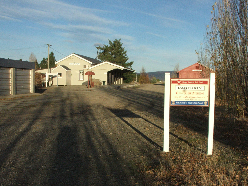 The Central Otago Rail Trail at Ranfurly, New Zealand. Photo by Grutness.